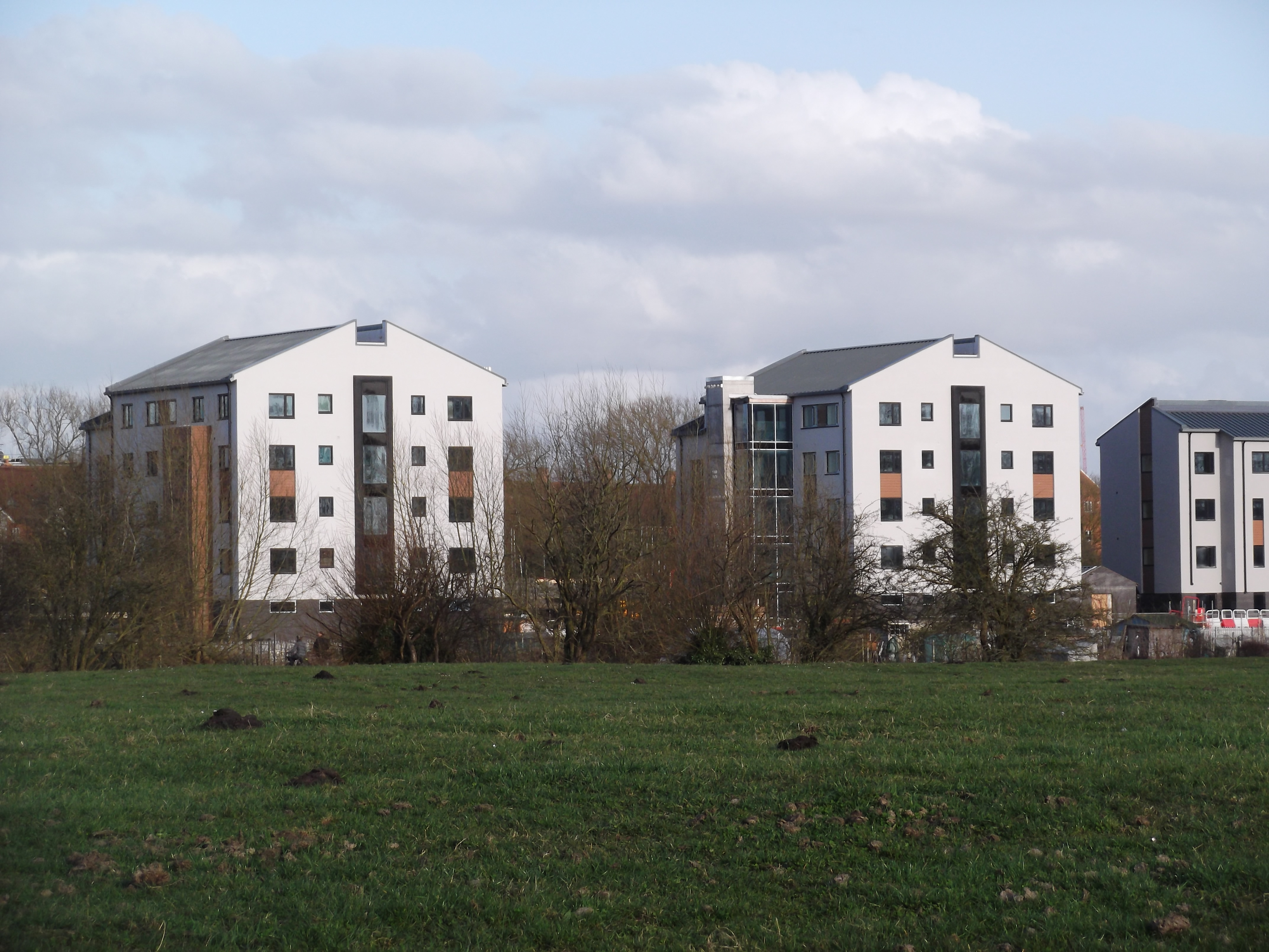 Castle Mill student accommodation blocks of Oxford University from Port Meadow, Oxford, England.